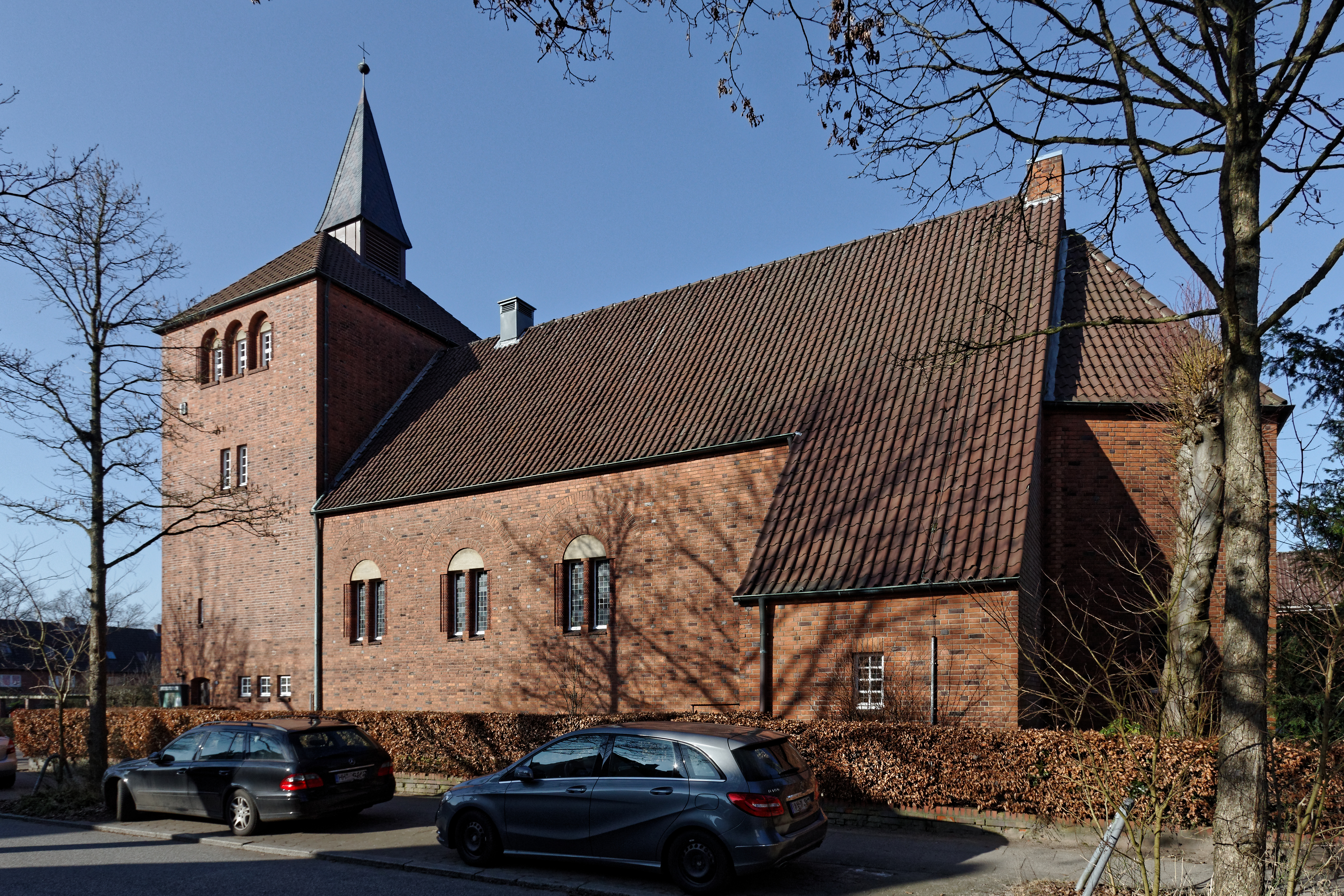 Mary Magdalene Church in Hamburg-Ohlsdorf, southern view